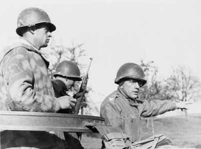 Colonel Boris Pash (right) and two unidentified soldiers during the ALSOS Mission at the end of World War II in Hechingen, Germany.